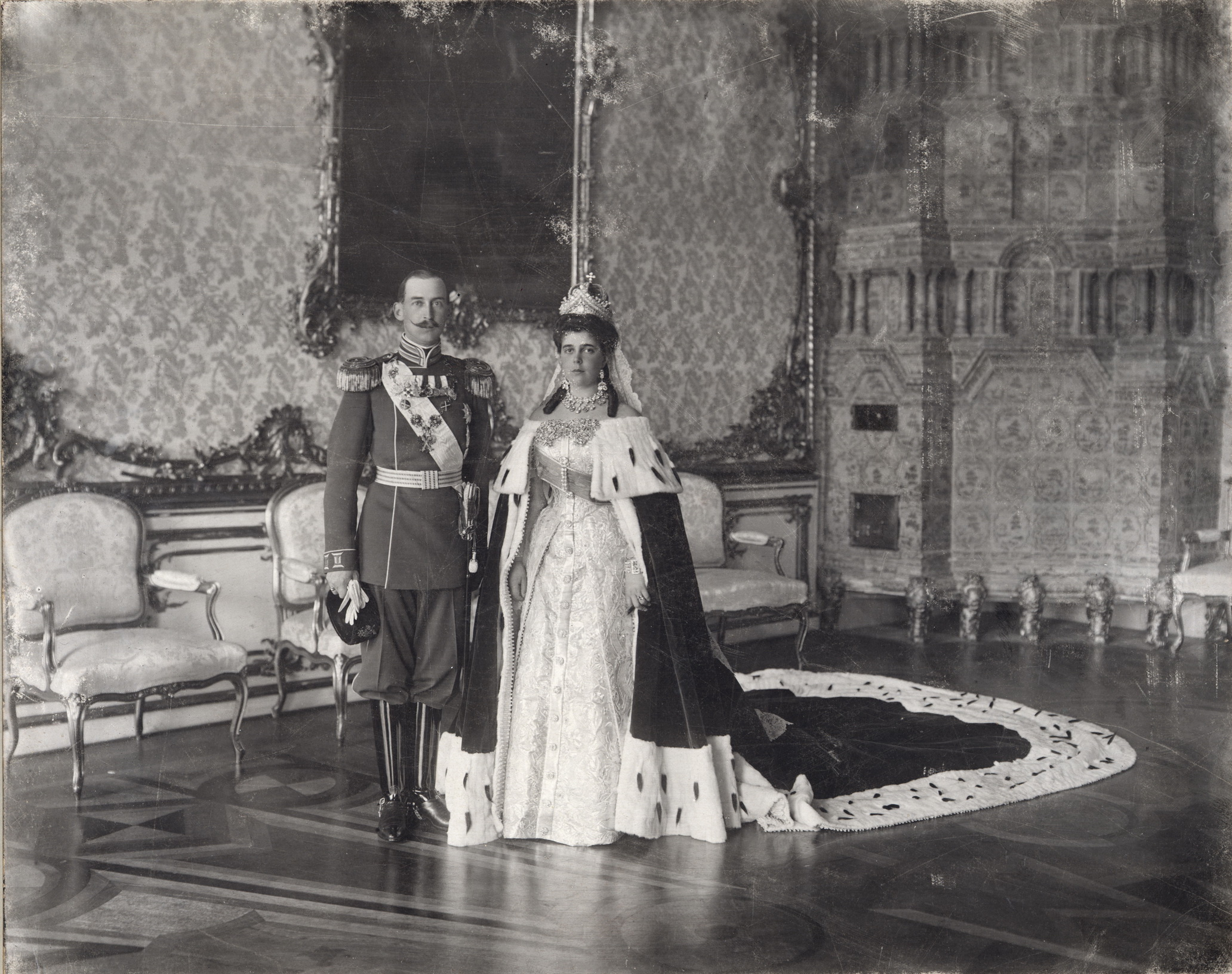 Tsarskoye Selo (Russia), Grand Duchess Elena Vladimirovna of Russia and Prince Nicholas of Greece and Denmark on their wedding day in the Portrait Hall of the Catherine Palace.